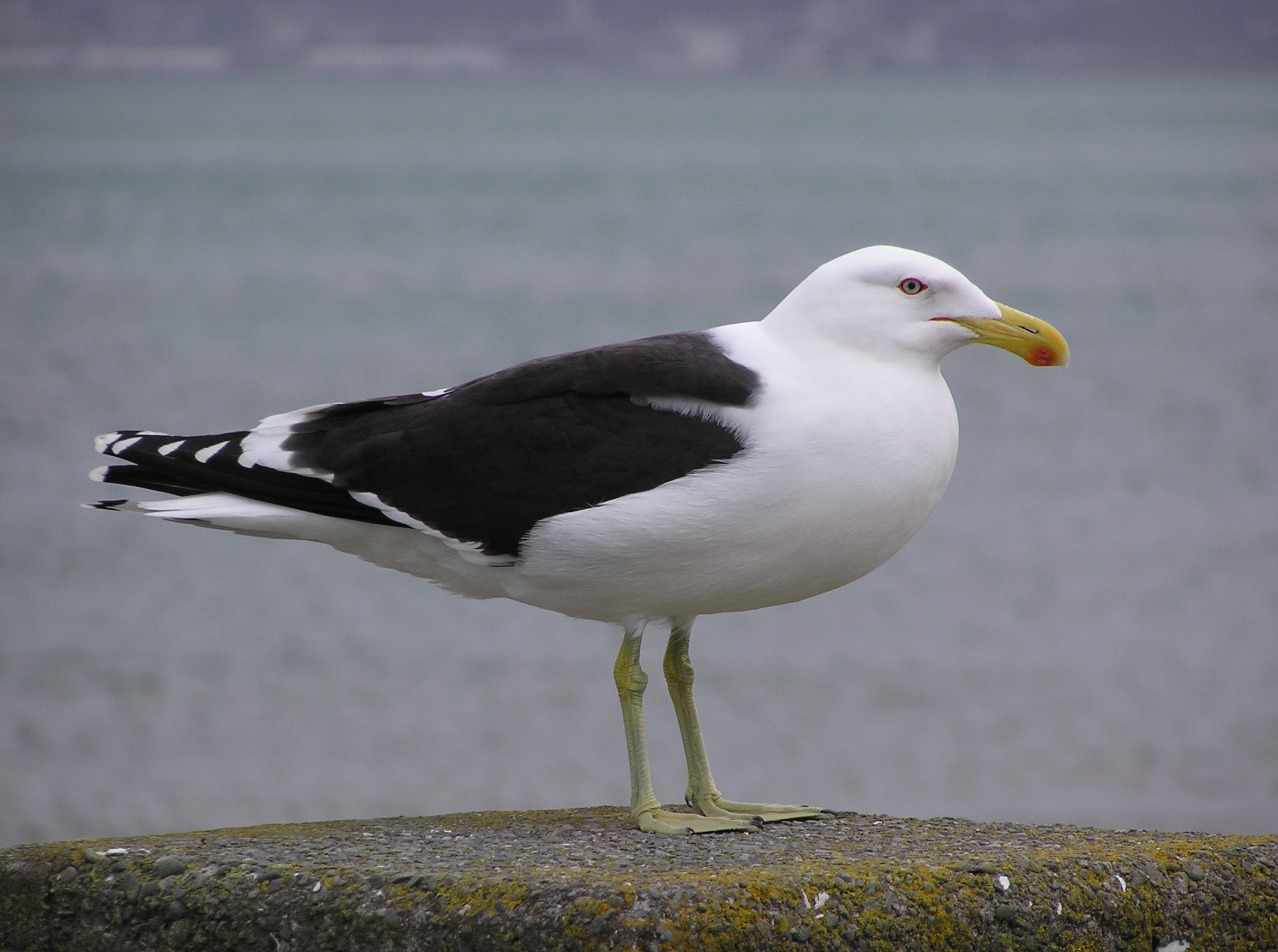 Kelp gull in Wellington Harbour, Wellington, New Zealand.